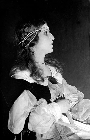 Azerbaijani actress Marziya Davudova as Duchess Josiana in Victor Hugo's "L'Homme qui rit" ("The Man Who Laughs").